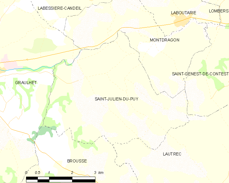 Map of French municipality Saint-Julien-du-Puy